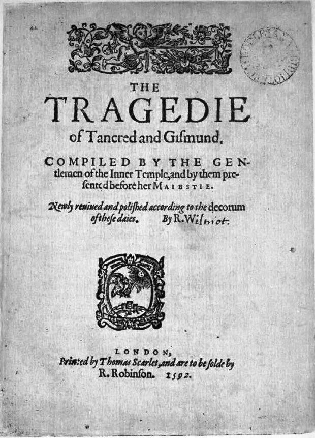 Title page of the play Tancred and Gismond second printing 1592